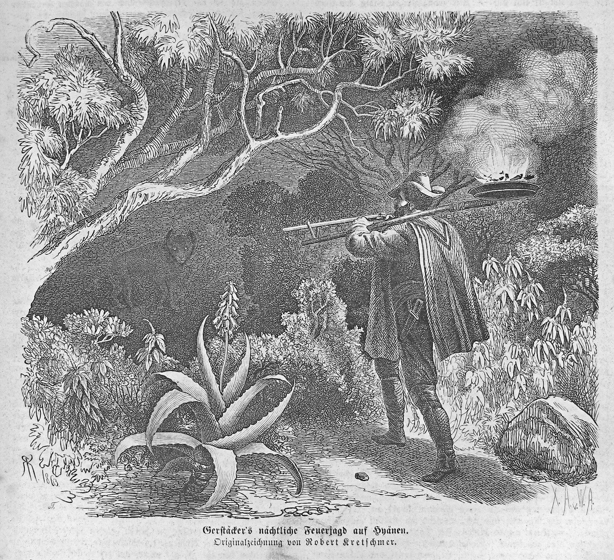 caption: "Gerstäcker’s nächtliche Feuerjagd auf Hyänen. Originalzeichnung von Robert Kretschmer."